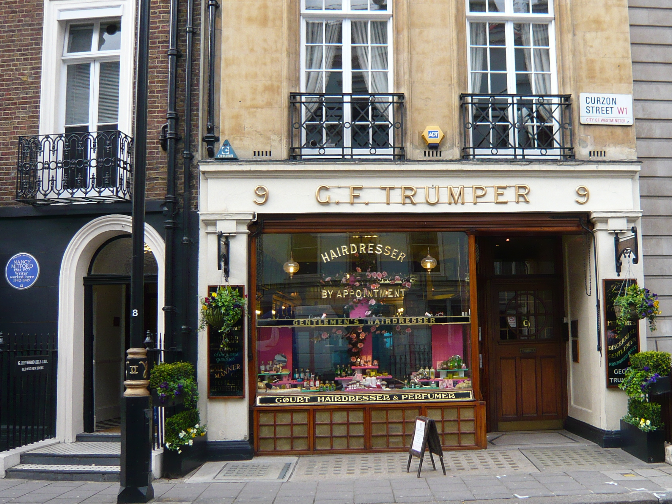 Geo. F. Trumper, Curzon Street, Mayfair.